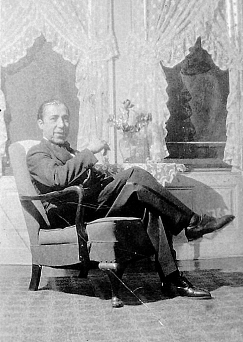 Mustafa Osman in the 1940s